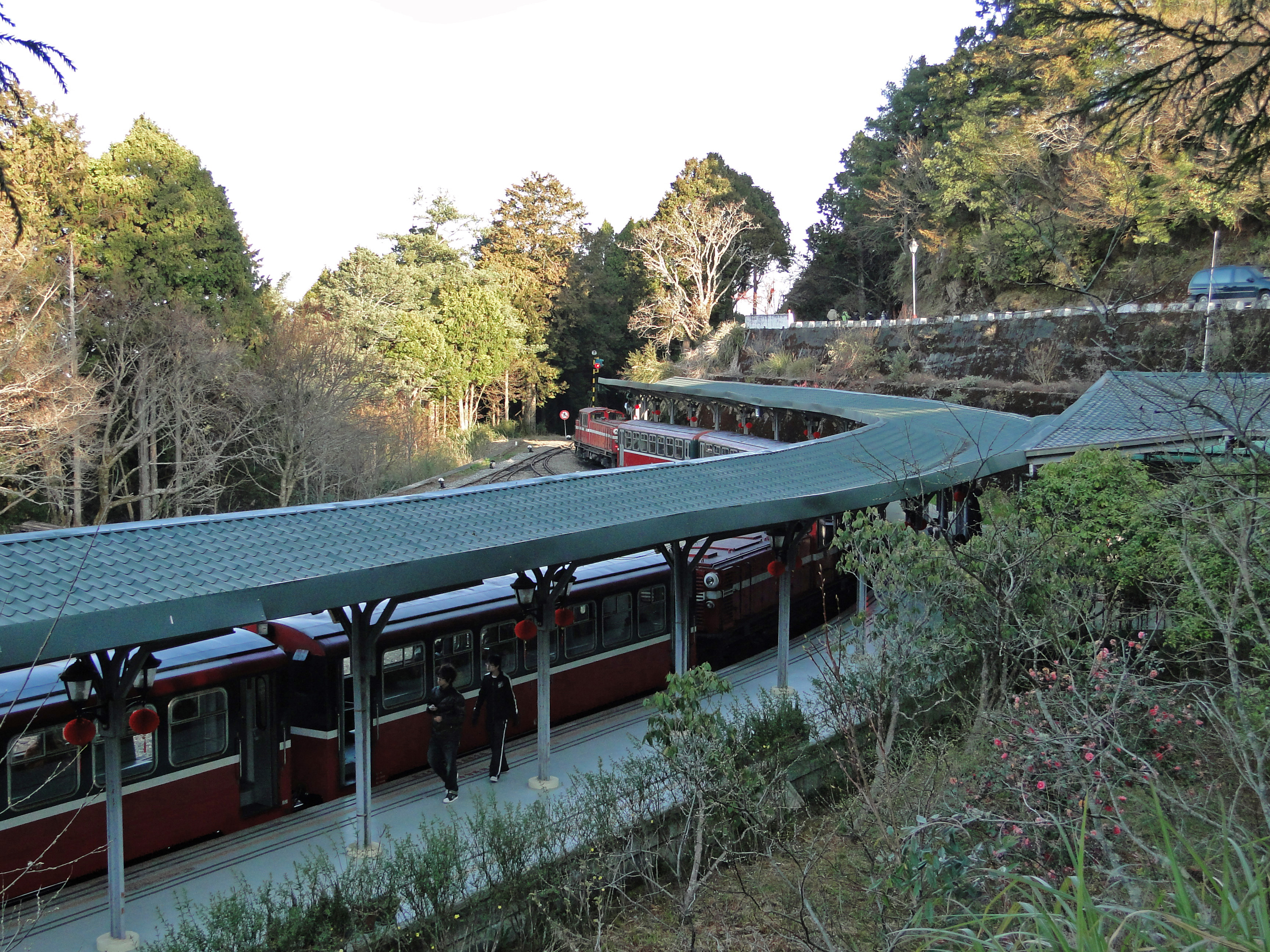 Jhushan Station, Taiwan